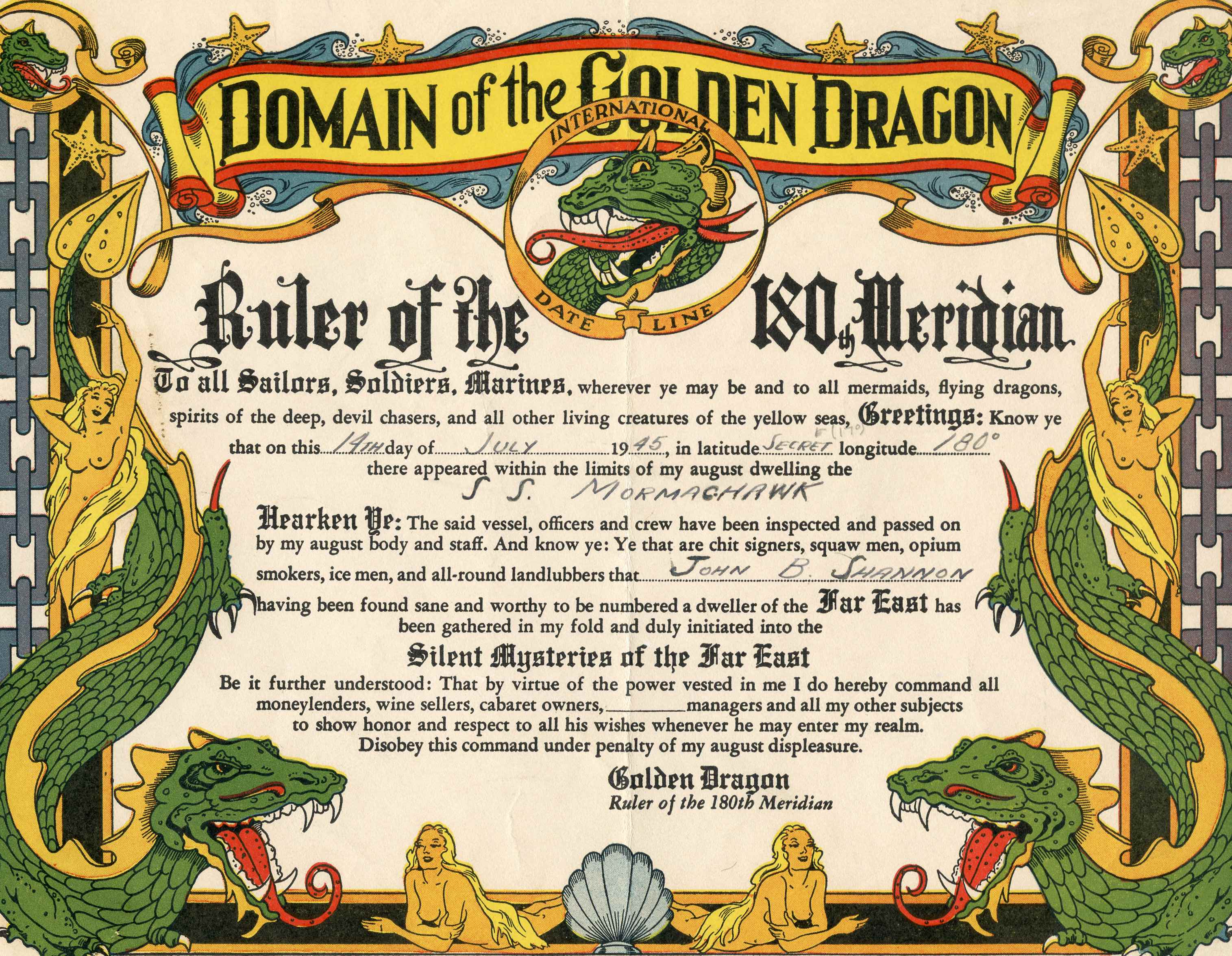 The Certificate of the Golden Dragon presented on July 14th, 1950. The ship was carrying solders headed for Operation Overlord, the invasion of Japan. Note that the latitude is listed as 'secret' but was noted as an estimated 17 degrees.